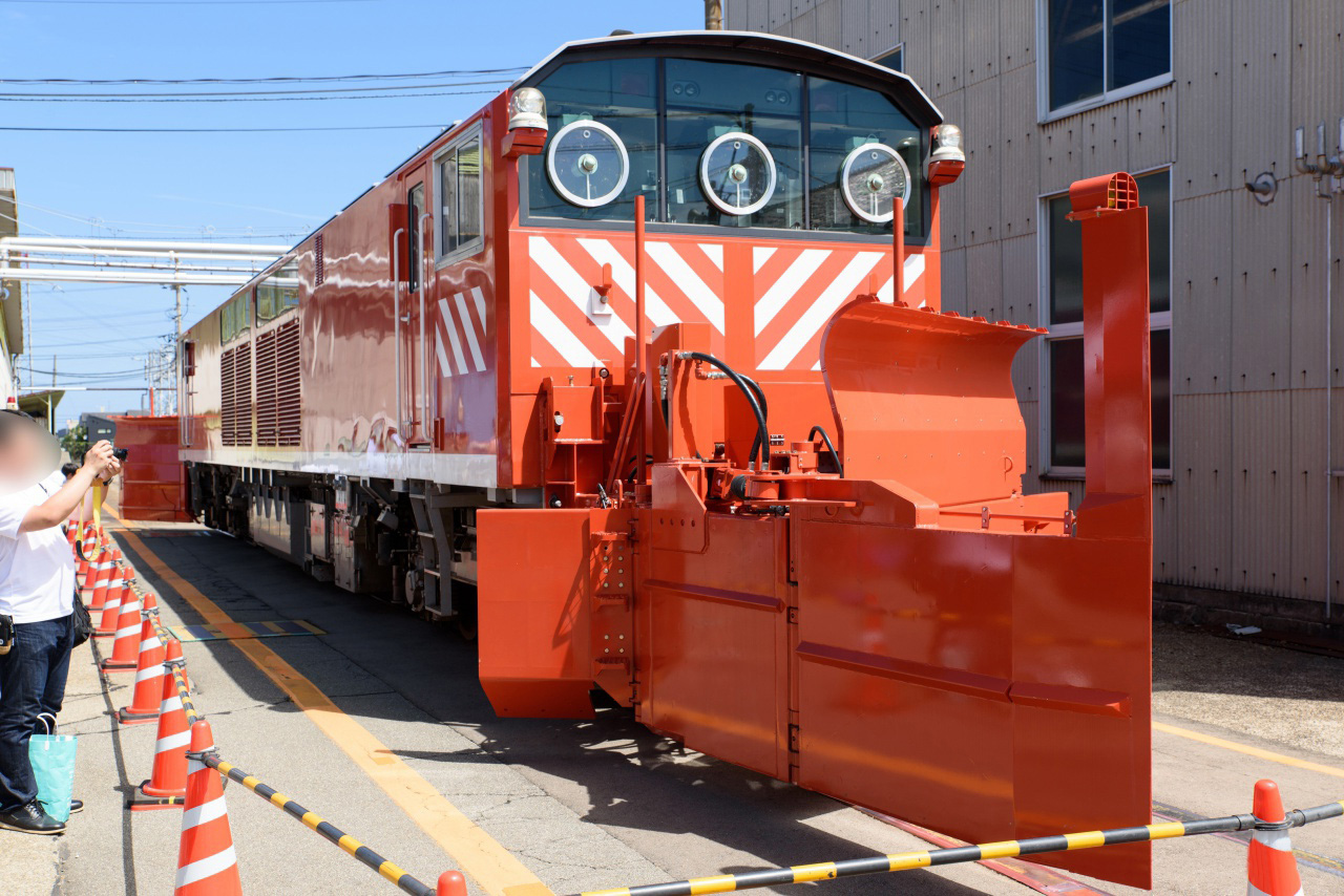 JR West KiYa 143 snowplough diesel locomotive KiYa 143-2 at Kanazawa Depot during the annual open day event